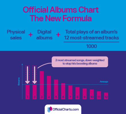 A graphic showing UK Music Charts methodology